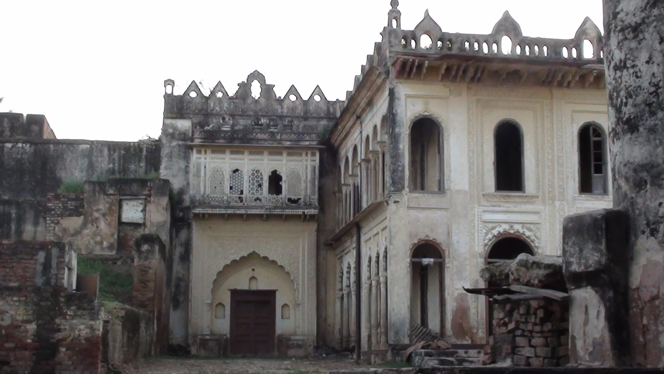 Picture of Chhatari Fort(a Lalkhani estate).